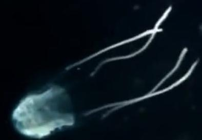 A box jellyfish which is looks like Carukia barnesi or Malo kingi or another Box jellyfish species...